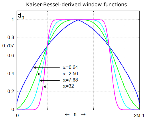 Kaiser-Bessel derived (KBD) window function for different alpha values.